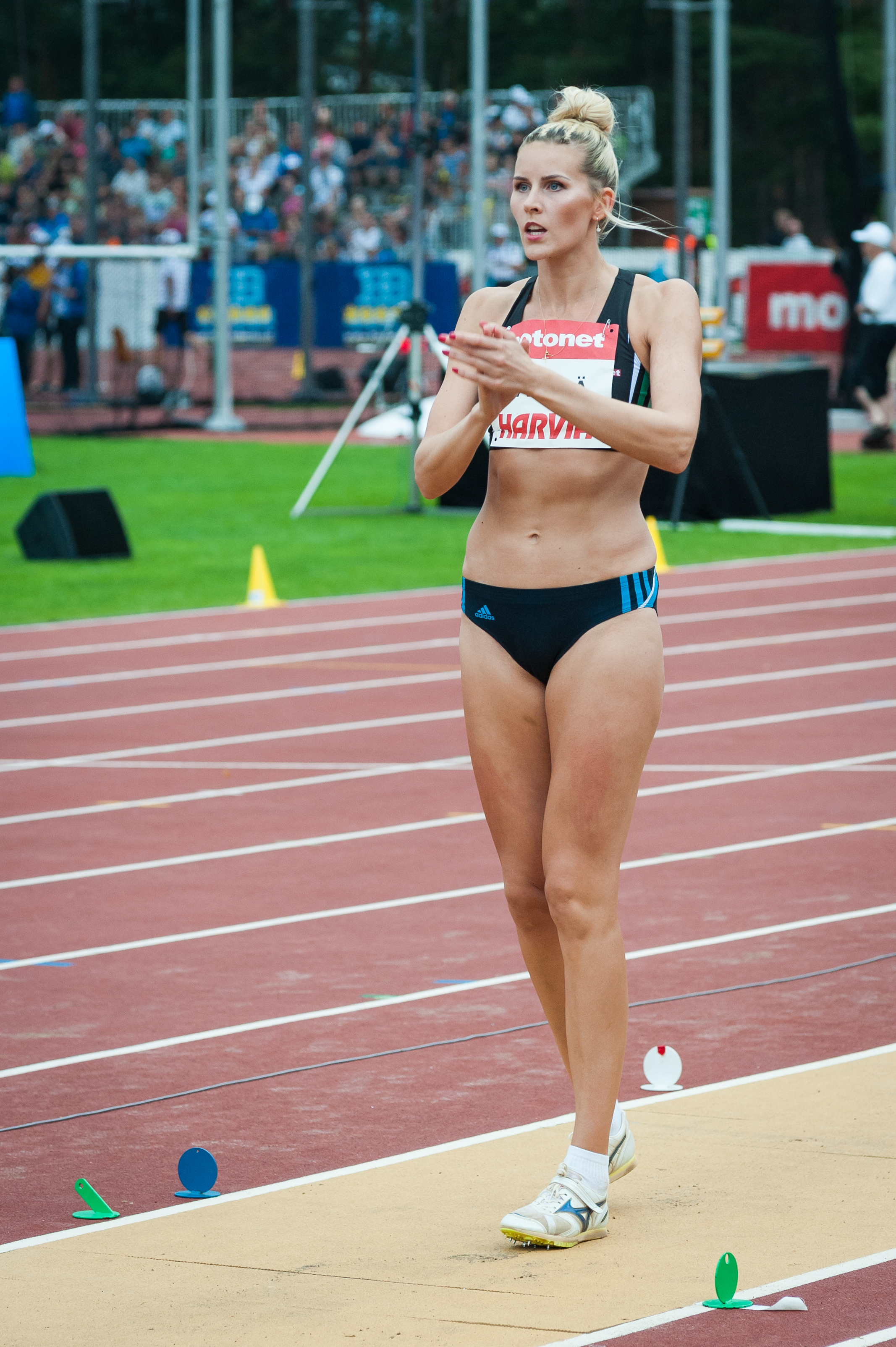 Women's triple jump competition at the 2018 Kalevan Kisat, the Finnish championships in athletics, in Jyväskylä, Finland.